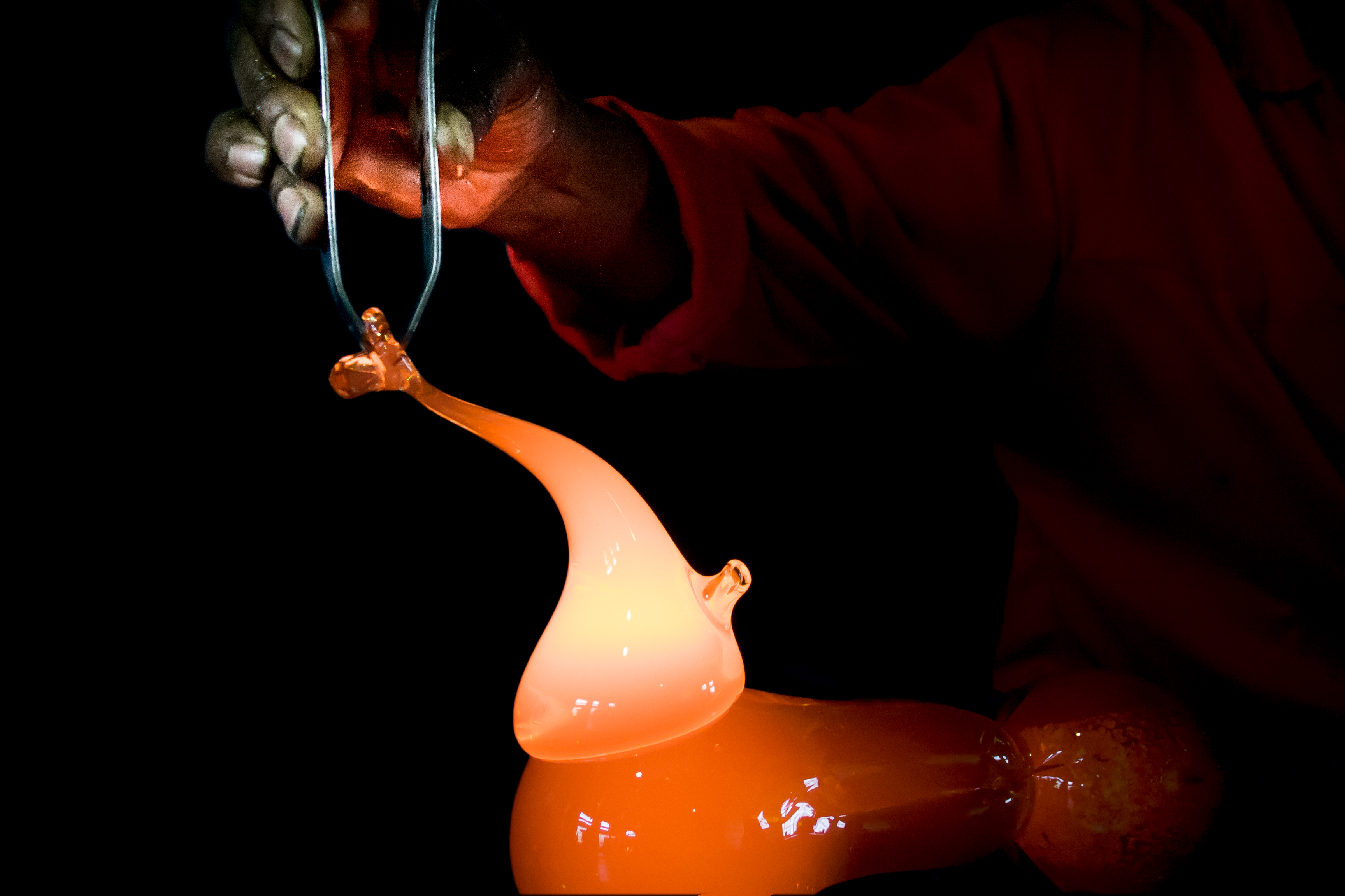 Here is Bongani. He is making the second stage of an elephant. He pull the tusks, mouth and truck in less than 10 seconds. The glass is 100% recycled glass which requires the glass to reach 1200 degrees C to be malleable enough to make items. This is an image of "African people at work" from Eswatini